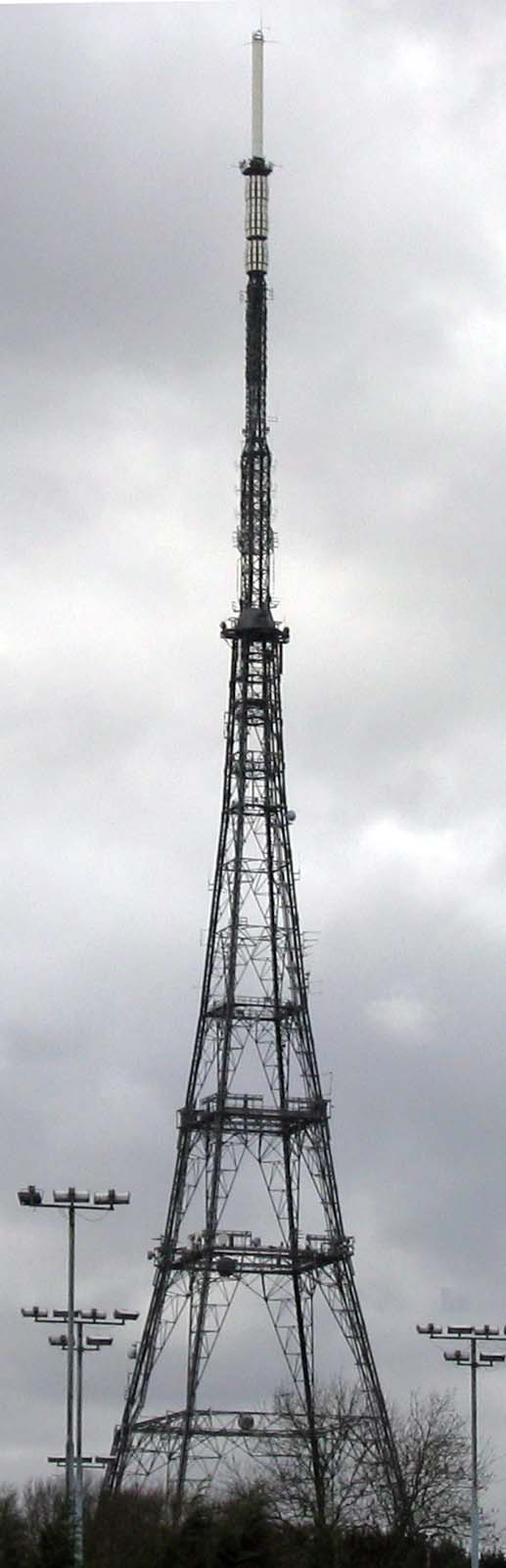 Crystal Palace mast taken by C Ford, march 04.